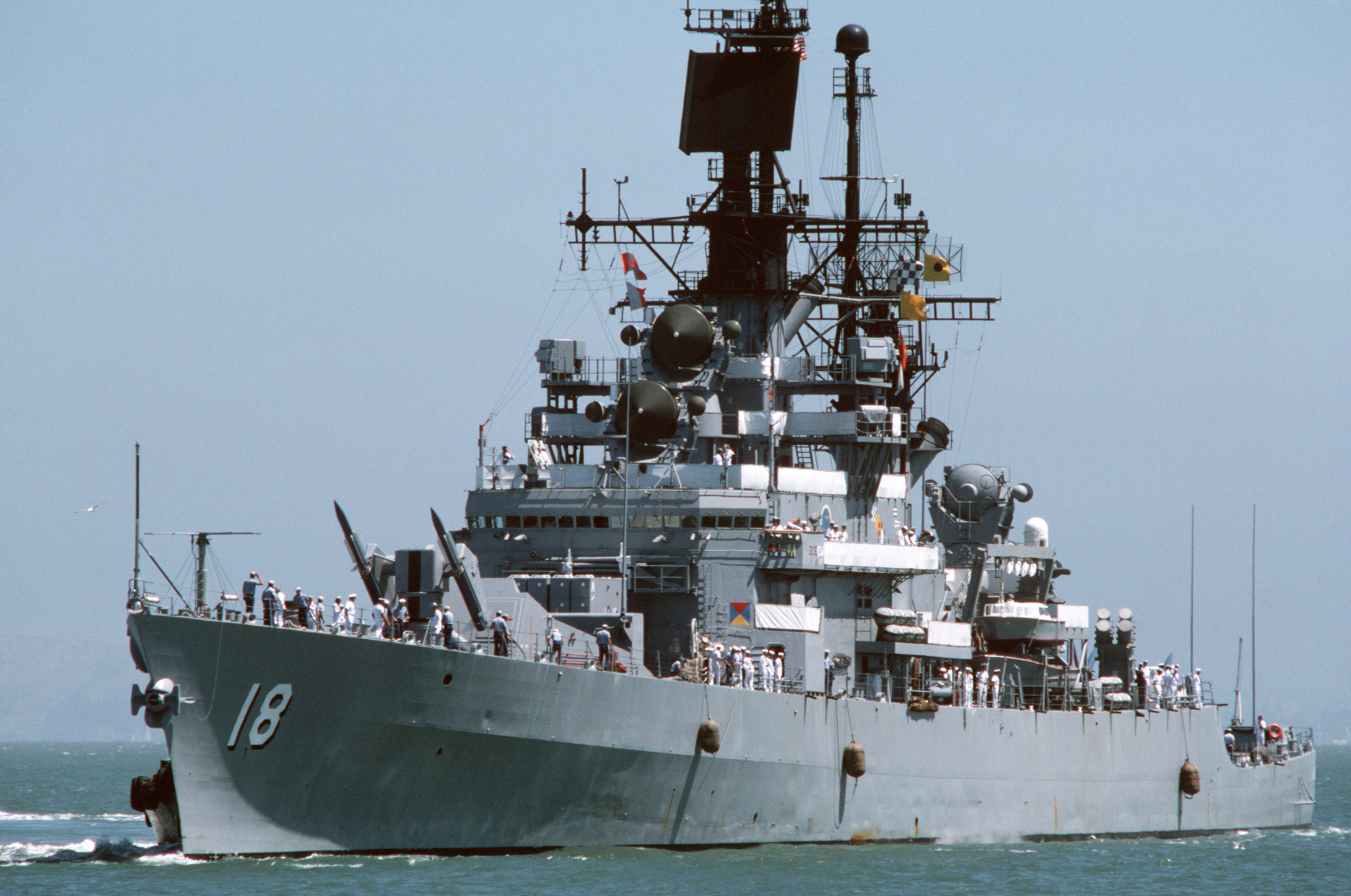 The U.S. Navy guided missile cruiser USS Worden (CG-18) arriving in San Francisco Bay, California (USA), on 12 July 1986. The ship was participating in a midshipmen's summer training cruise.